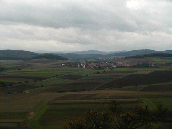 Fritzlar Plain and the Hasenberg (left) seen from the Wartberg; in the foreground the village Lohne